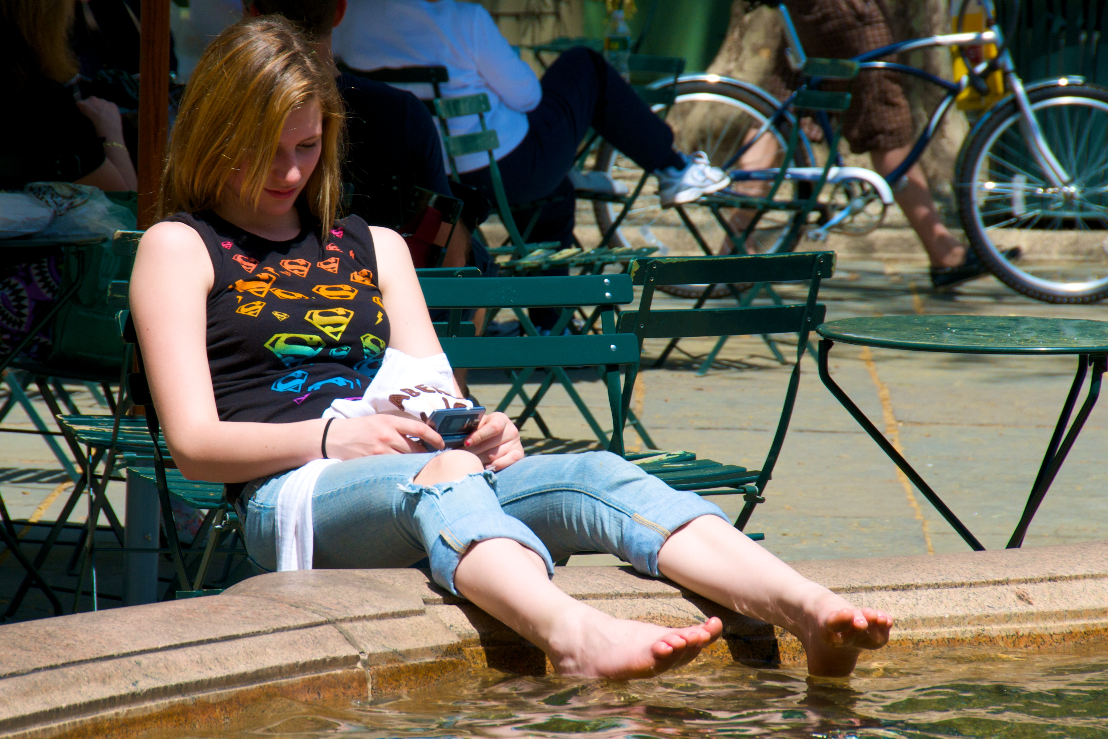 Bryant Park, late Apr 2009.